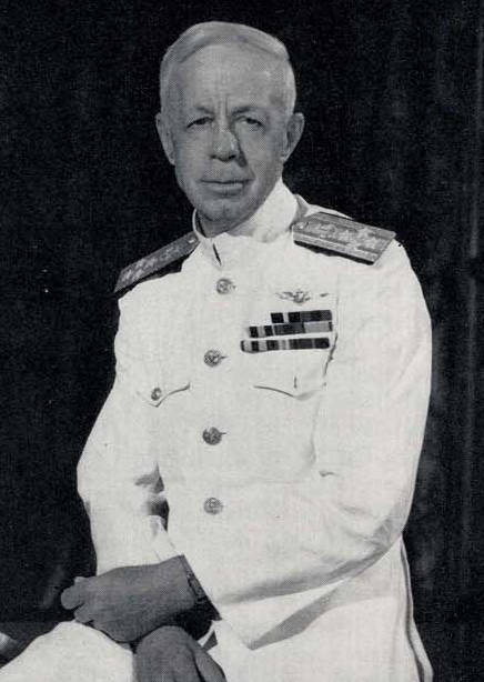 Admiral Harry Ervin Yarnell (18 October 1875 - 7 July 1959) was an American naval officer.